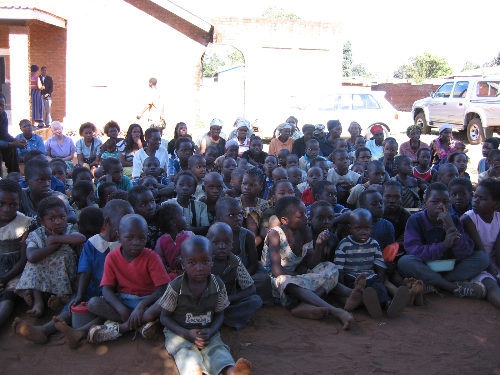 AIDS Orphans in the Biwi/Mchesi area of Lilongwe, Malawi